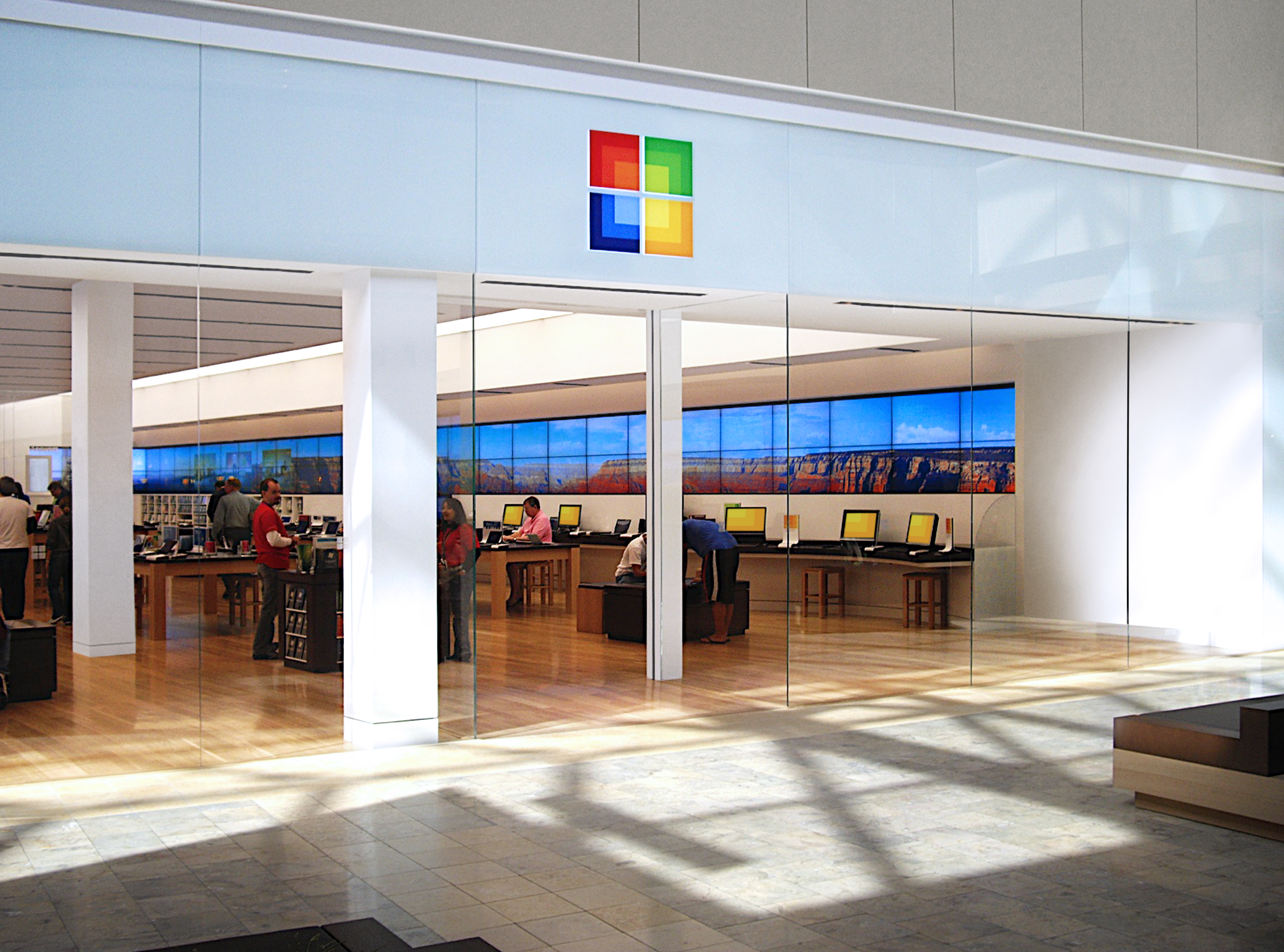 Microsoft Store Front